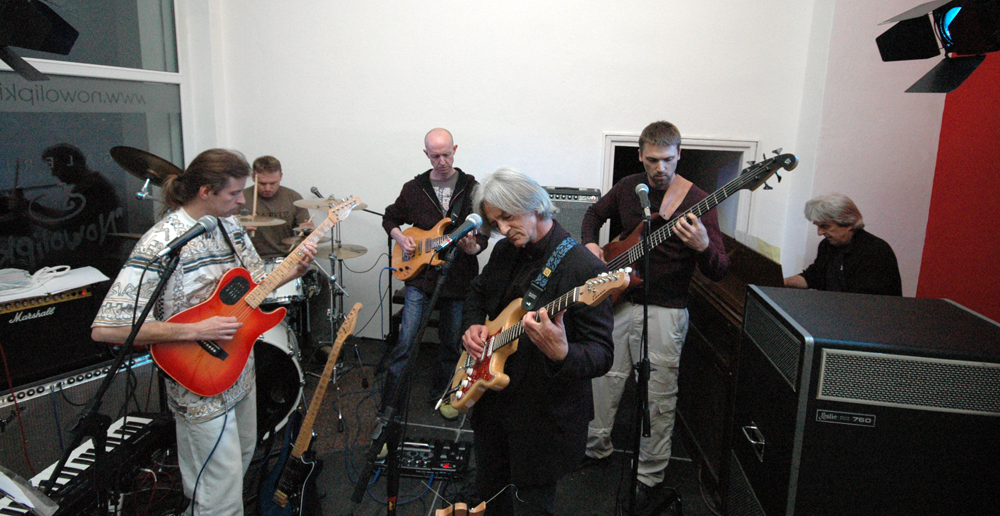 Progressive rock band Klan during a concert at Nowolipki art gallery in Warszawa, Poland